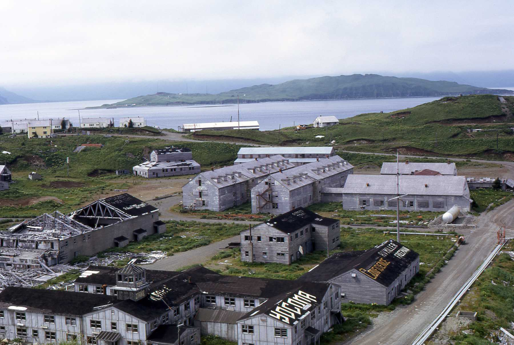 United States of America, Alaska, Amaknak Island. The abandoned barracks and depots after the closing of the Dutch Harbor Naval Operating Base and Fort Mears, U.S. Army: Hog Island is in the background.